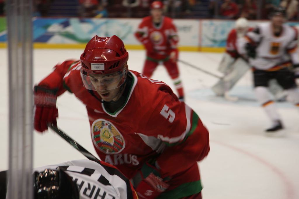 Defender Nikolai Stasenko #5 of the Belarus in action during the 2010 Winter Olympics game against Germany at Canada Hockey Place on February 20, 2010 in Vancouver, Canada. Belarus won the game 5-3.